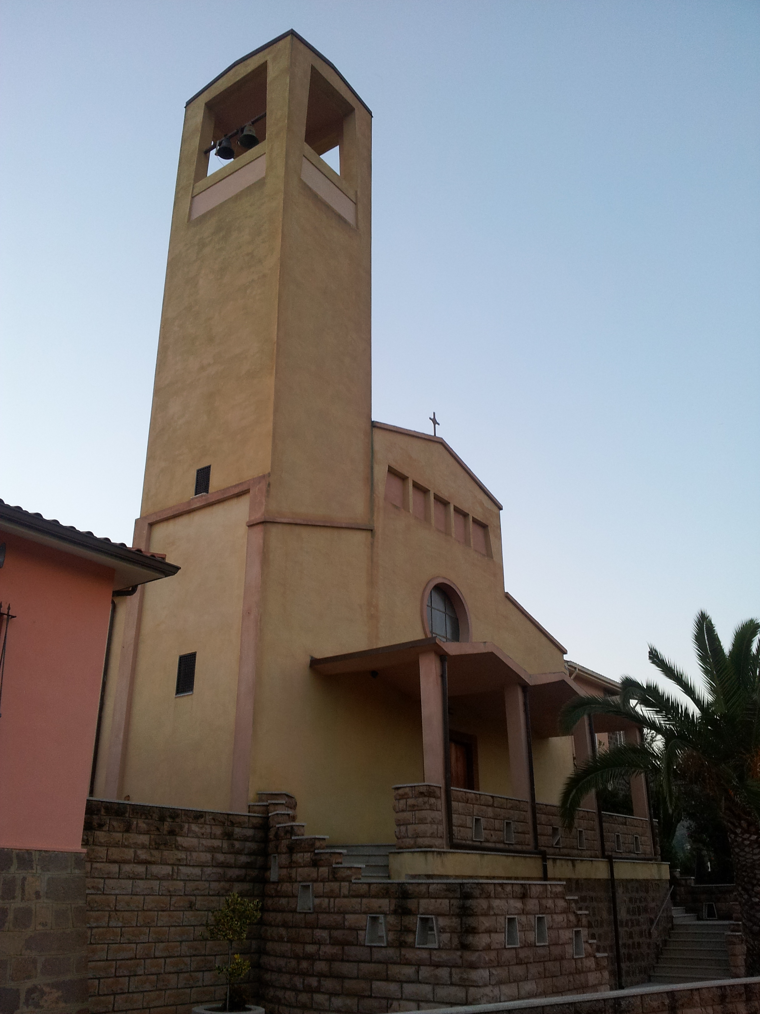 Saint Andrew's Church in Modolo (OR), Sardinia, Italy